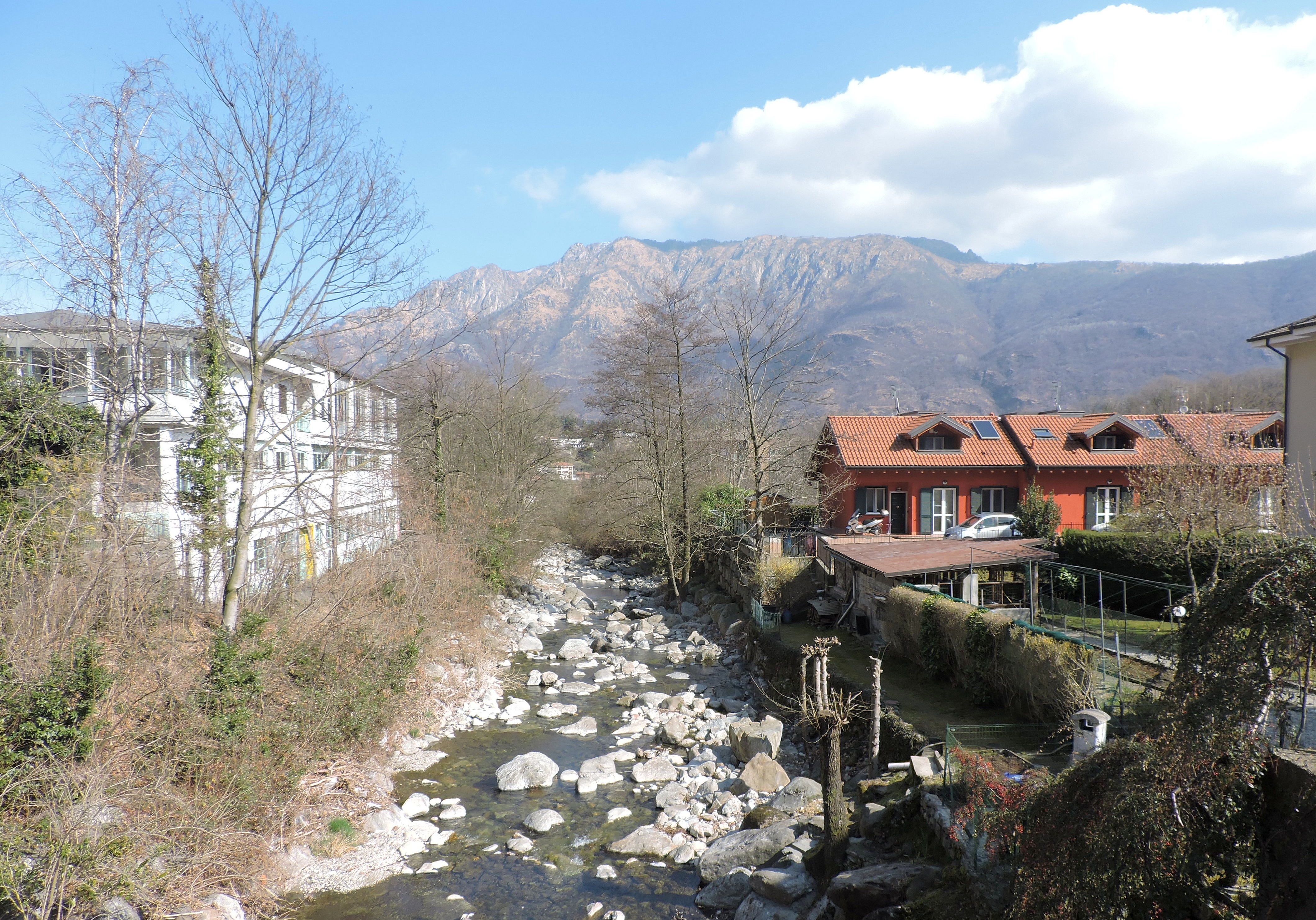 Fiumetta creek at Pontebria (comune of Omegna, VB, Italy), with the Mottarone in the background